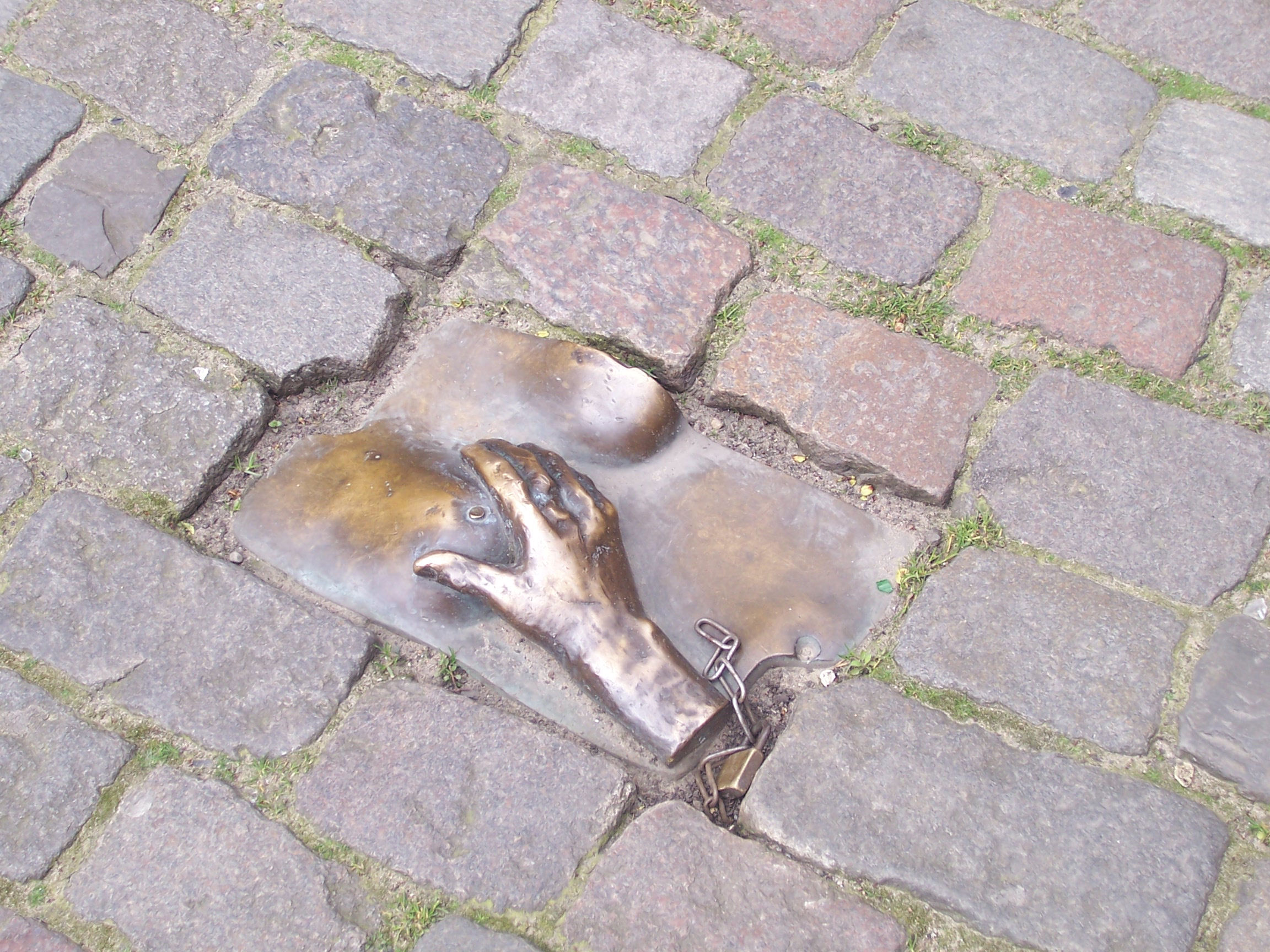 Original description:- "Hand grabbing a breast, set into the pavement in Amsterdam"